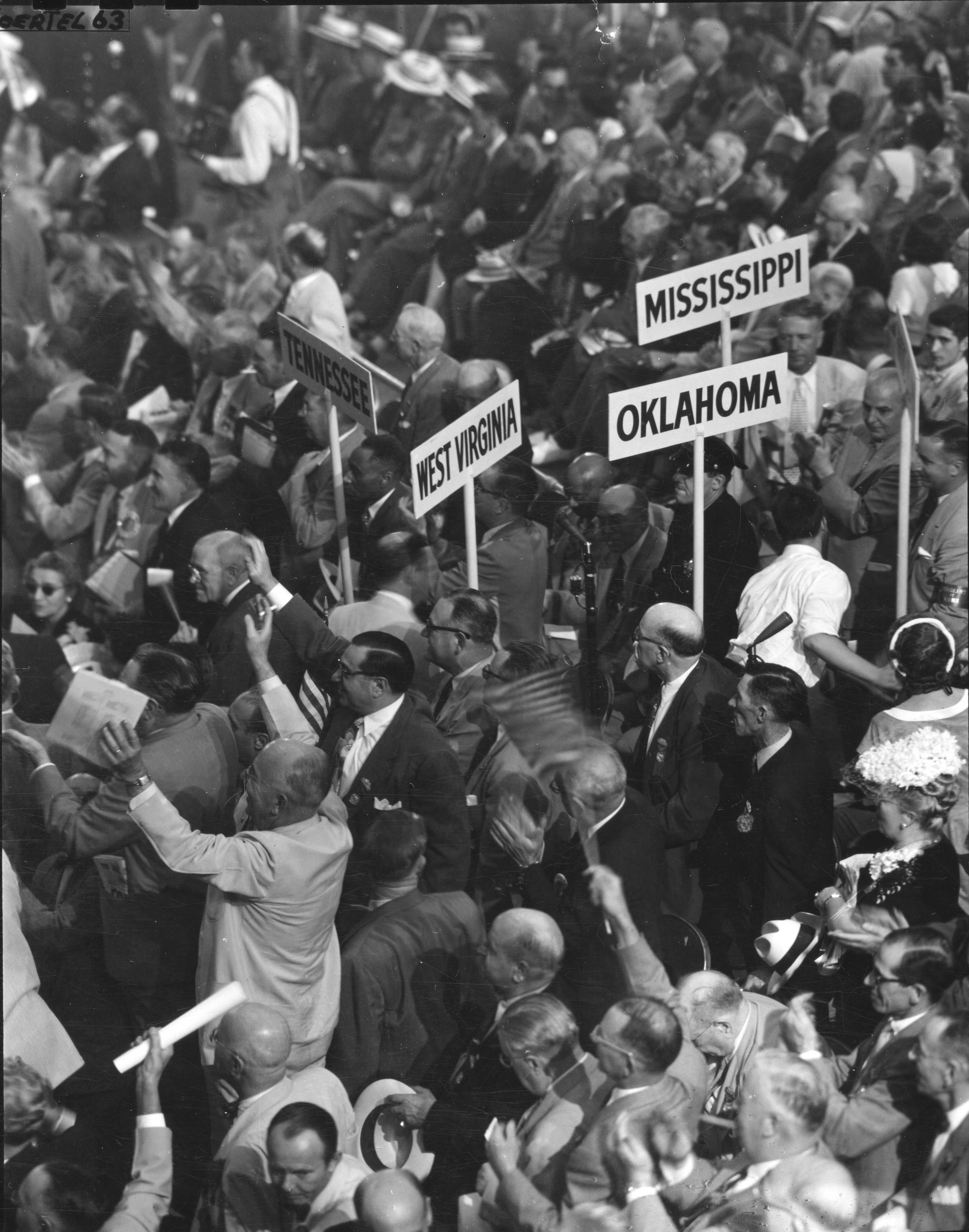 Attendees at the 1952 Republican National Convention, Chicago, Illinois